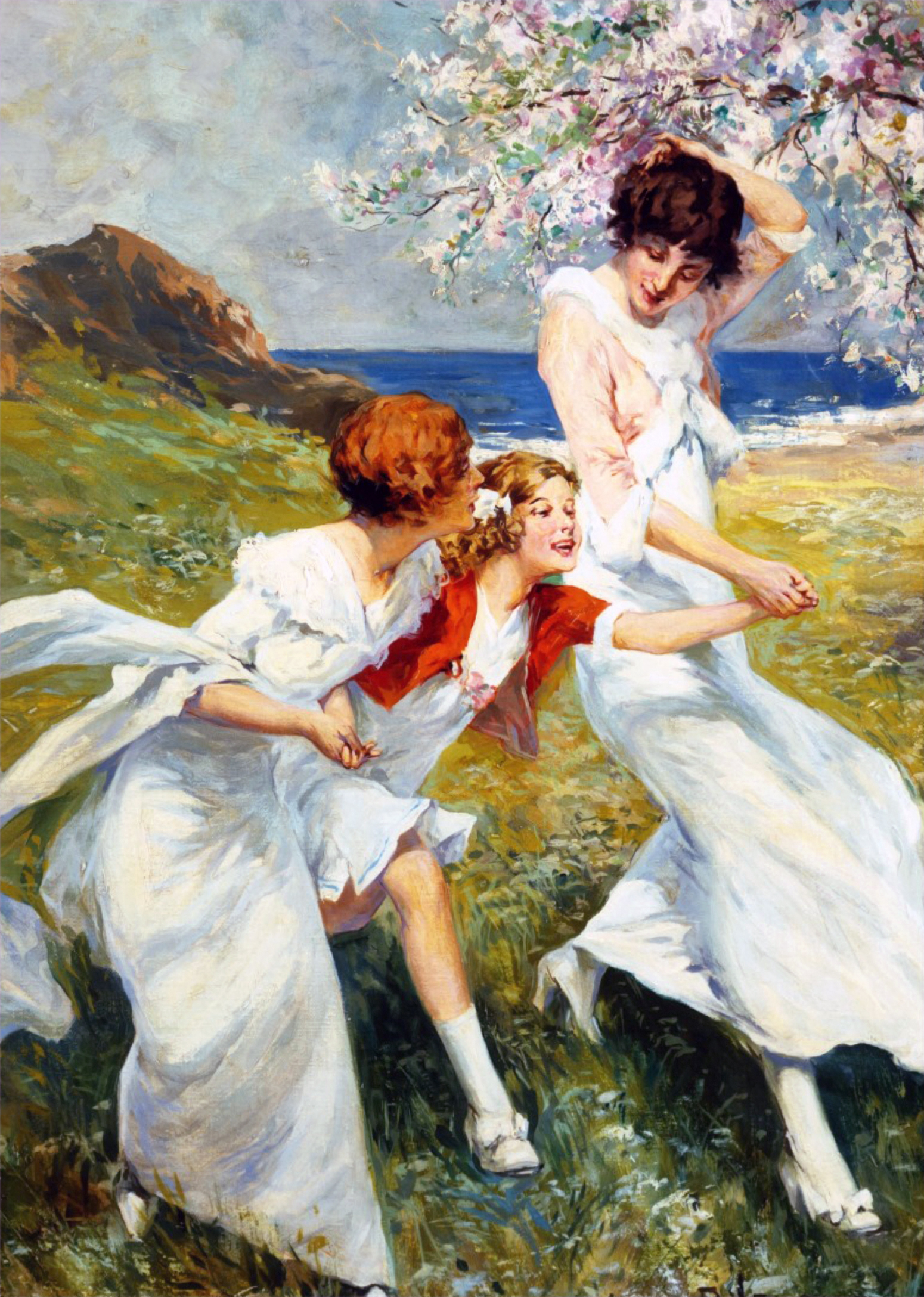 René Lelong - Joys of Spring (ca 1890-1900).